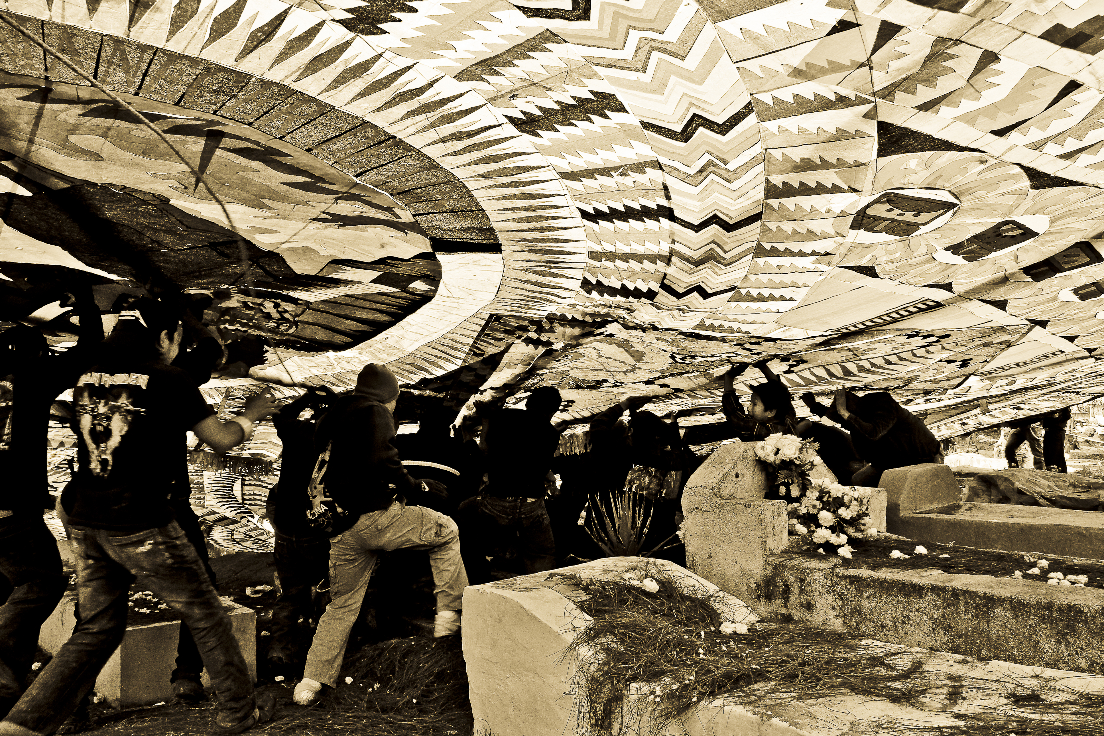 Barrilete Gigante